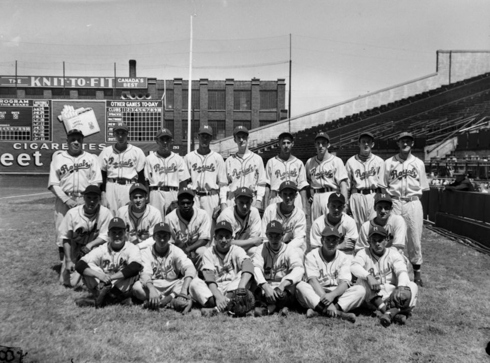 We see the players of the baseball team of the Montreal Royals in Delorimier Stadium in Montreal.